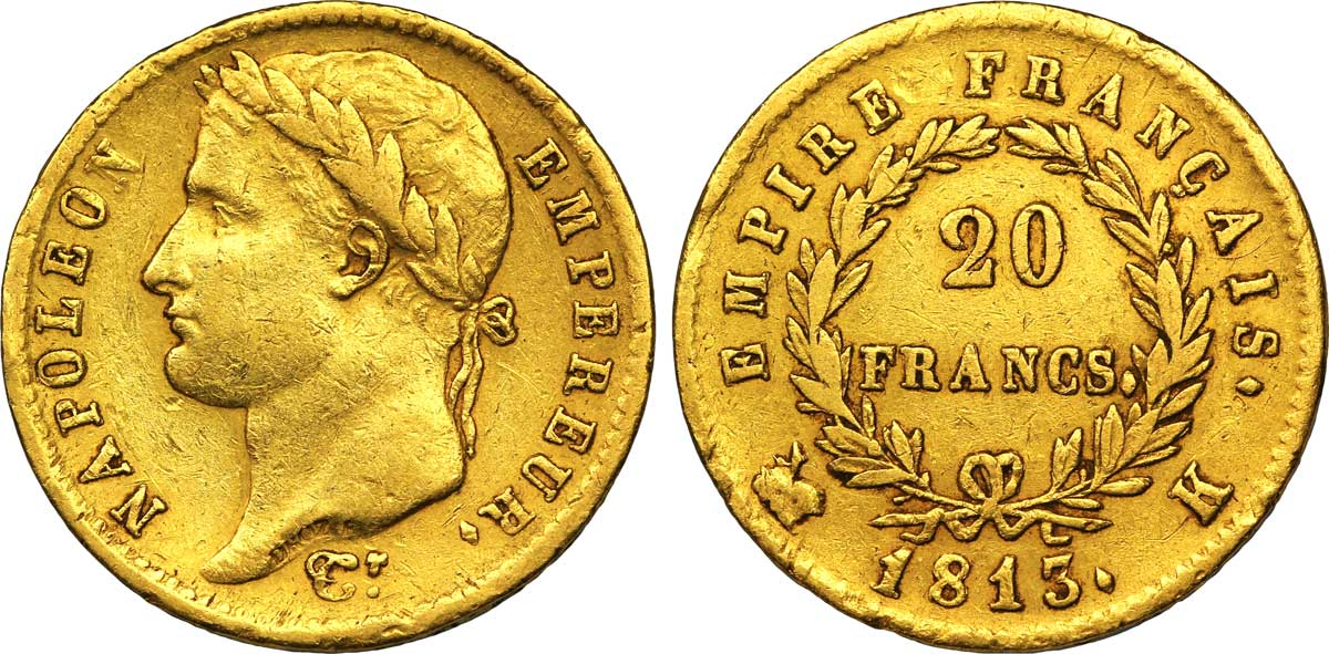 20 francs or Napoléon à la tête laurée, Empire français,1813,Bordeaux